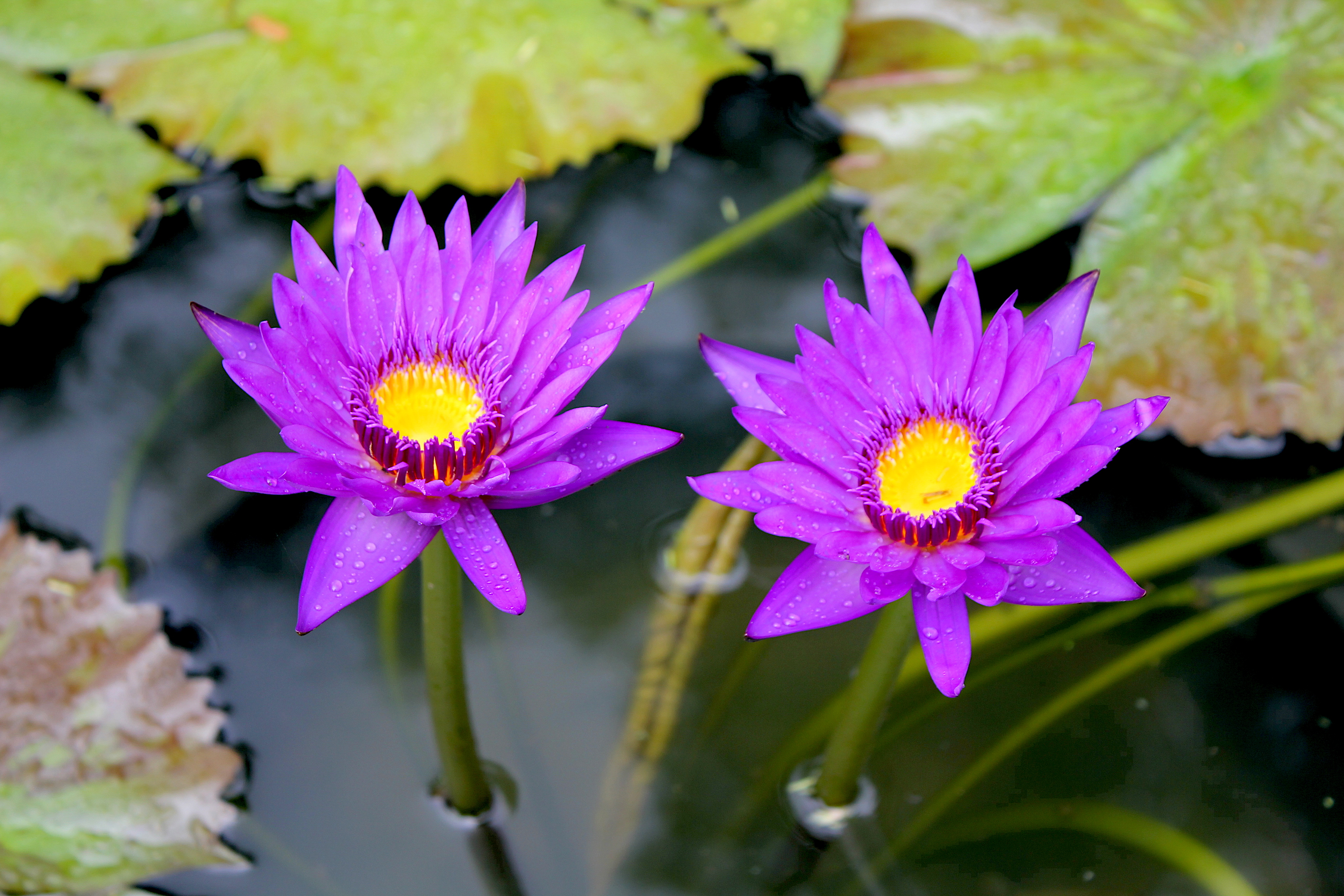 Photographed by Trisorn Triboon